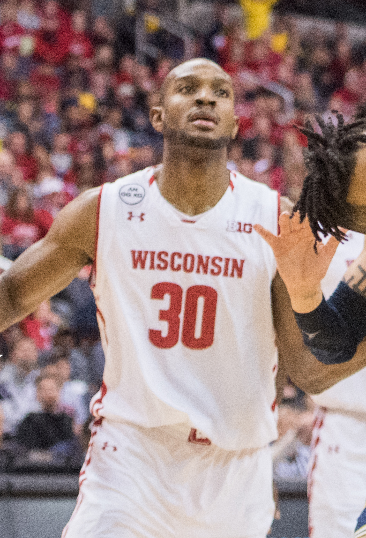 Vitto Brown of Wisconsin